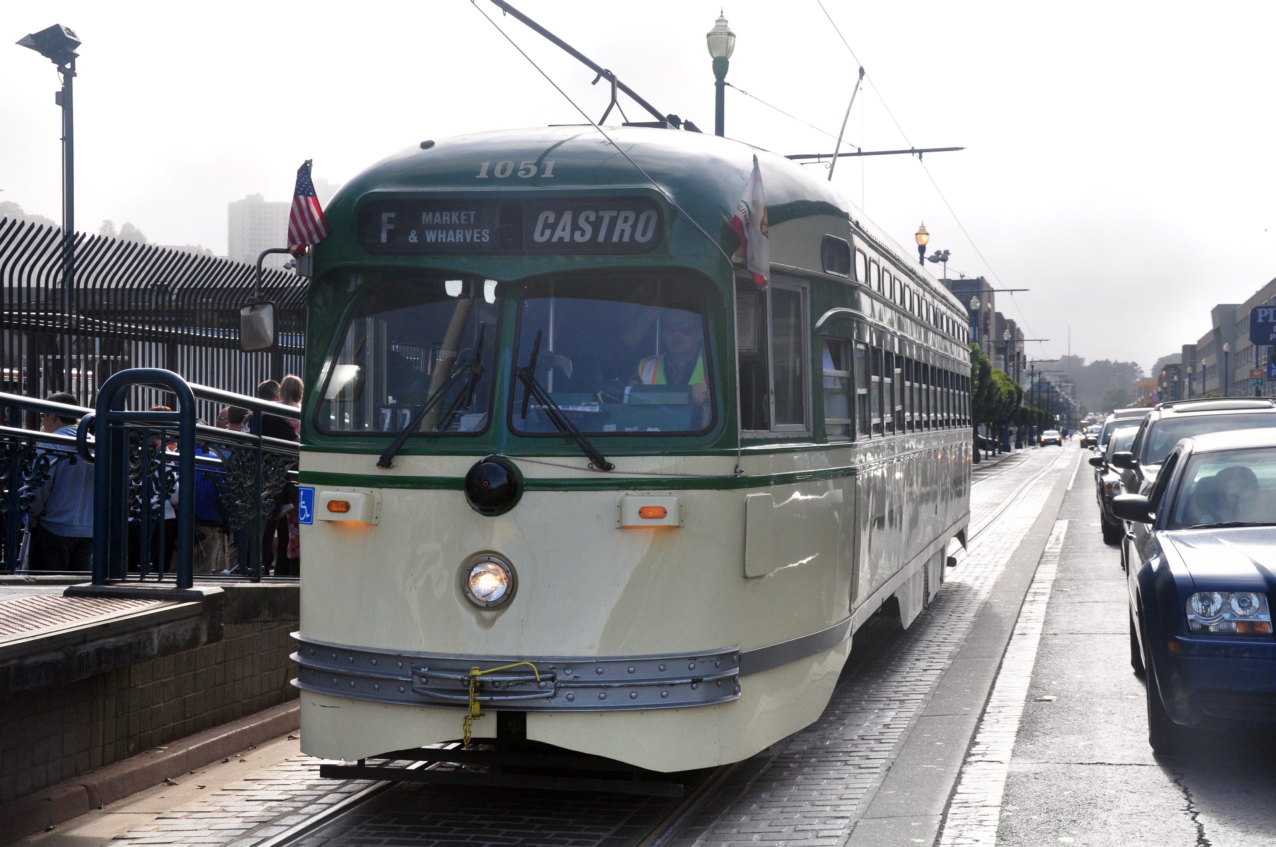 Muni 1051 at Beach and Stockton in September 2009